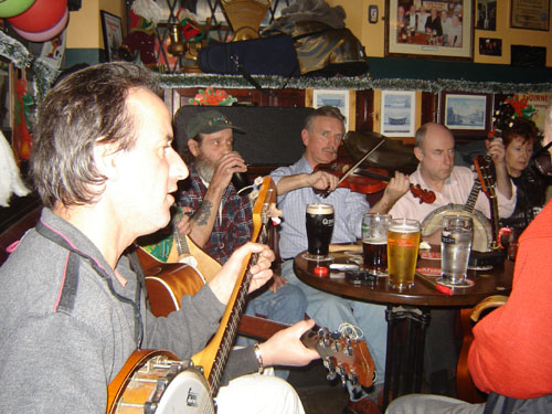 This is a photograph taken by myself of a session in a Dublin pub. I hereby grant use of this photograph.